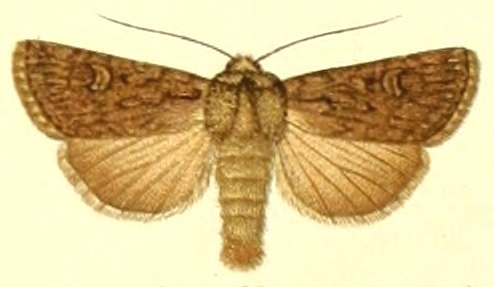 Image from Plate 7 of Die Gross-Schmetterlinge der Erde (The Macrolepidoptera of the World) Vol. 3